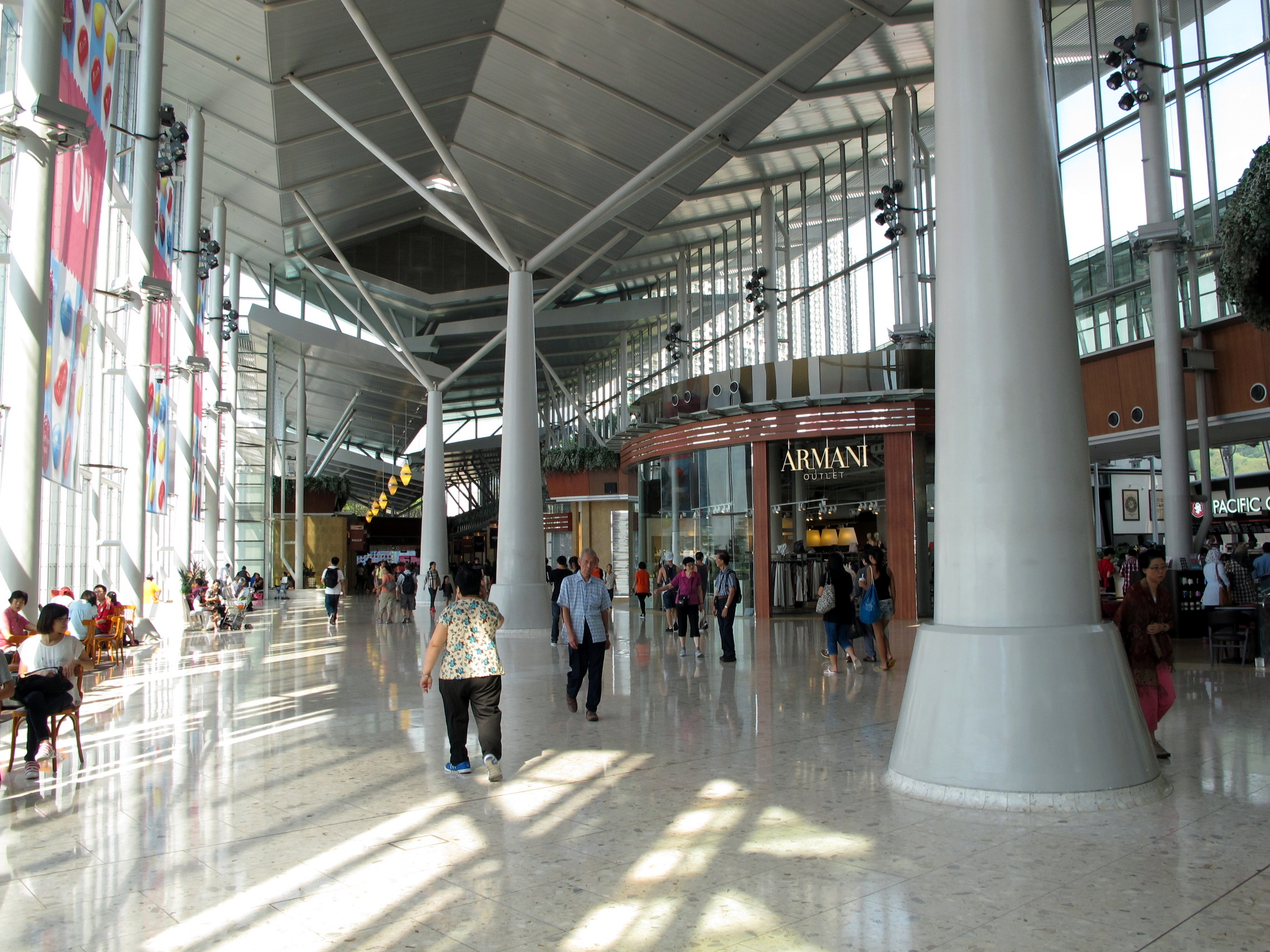 Citygate Bridge Corridor